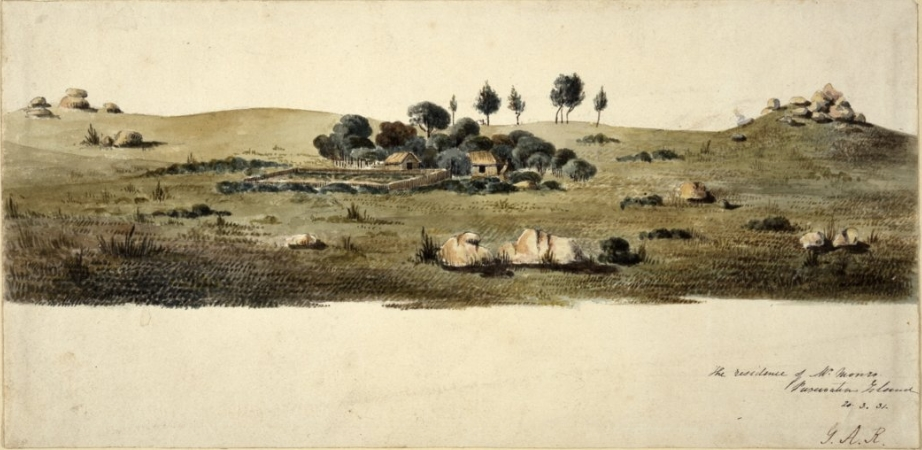 Henry Laing: A view in Tasmania - Preservation Island, off SW corner of Cape Barren Island; view of the establishment of James Munro in centre, on broad plain, surrounded by cluster of trees. 1831 Pen and grey ink and watercolour John Lort Stokes: Discoveries in Australia. Volume 2, Chapter 13, London 1846: "I found Preservation Island inhabited by an old sealer of the name of James Monro, generally known as the King of the Eastern Straitsmen. Another man and three or four native women completed the settlement, if such a term may be applied. They lived in a few rude huts on a bleak flat, with scarce a tree near, but sheltered from the west by some low granite hills; a number of dogs, goats and fowls constituted their livestock. In this desolate place Monro had been for upwards of twenty-three years; and many others have lived in similar situations an equally long period. It is astonishing what a charm such a wild mode of existence possesses for these men, whom no consideration could induce to abandon their free, though laborious and somewhat lawless state."